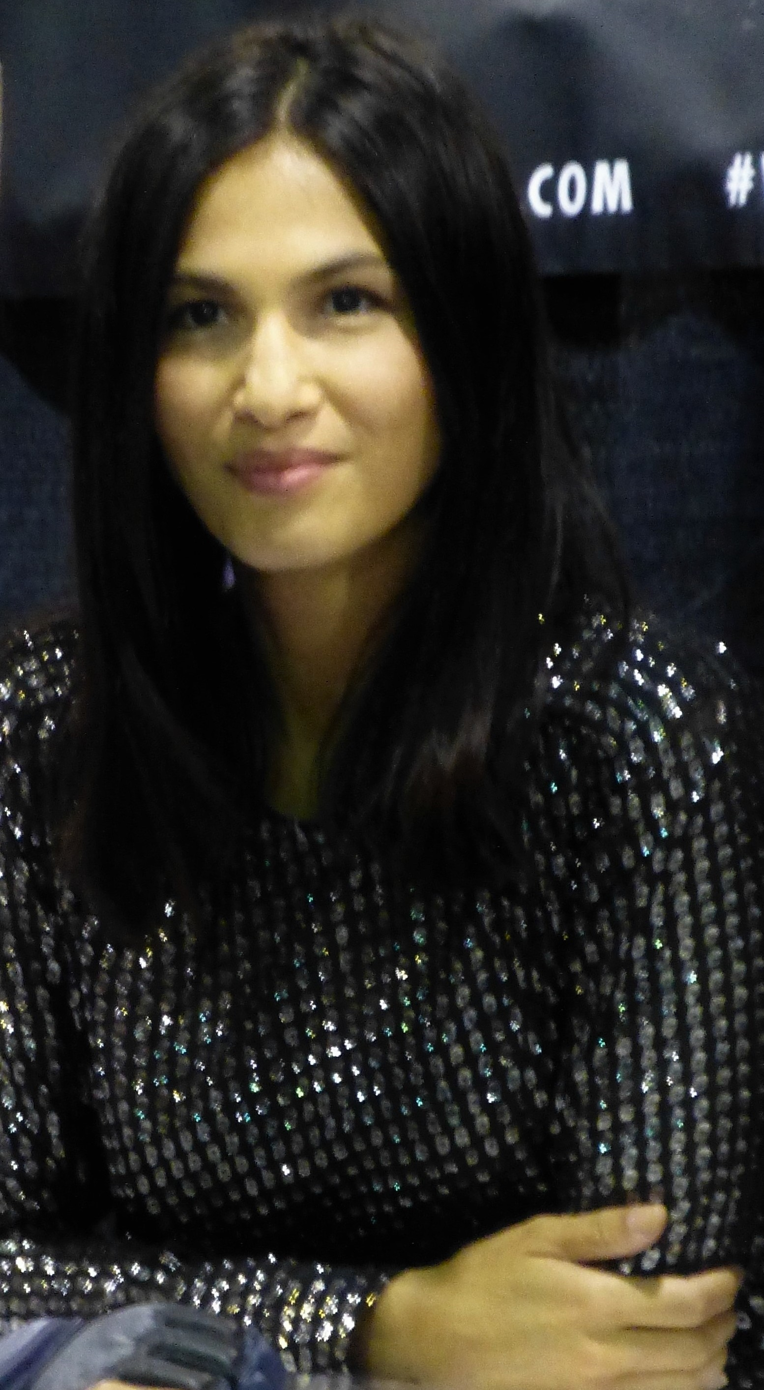 Elodie Yung at 2016 Chicago Wizard World